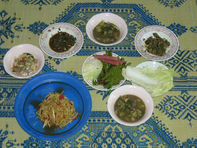 Thai dishes for lunch